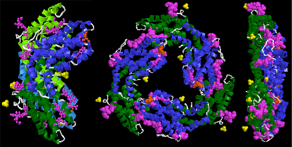 The crystal structure of B-phycoerythrin from Porphyridium cruentum (PDB ID: 3V57).This image was created with RasTop (Molecular Visualization Software) and Adobe Photoshop Elements.